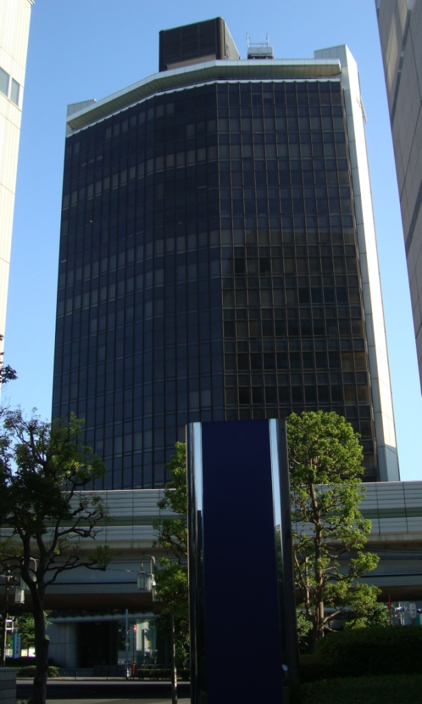 Fujifilm Headquarters building, Nishi-Azabu (Takagicho), Tokyo, completed in 1969